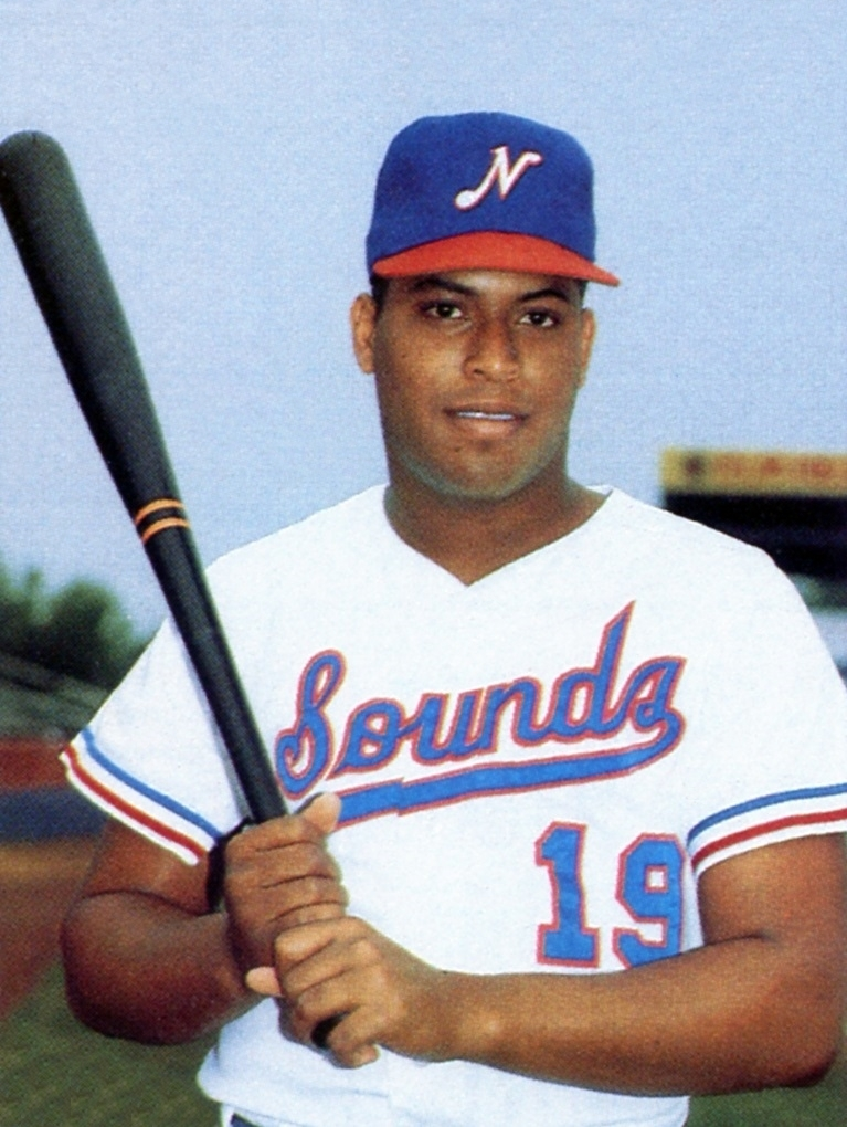 Pitcher Candy Sierra of the 1988 Nashville Sounds Minor League Baseball team of the American Association